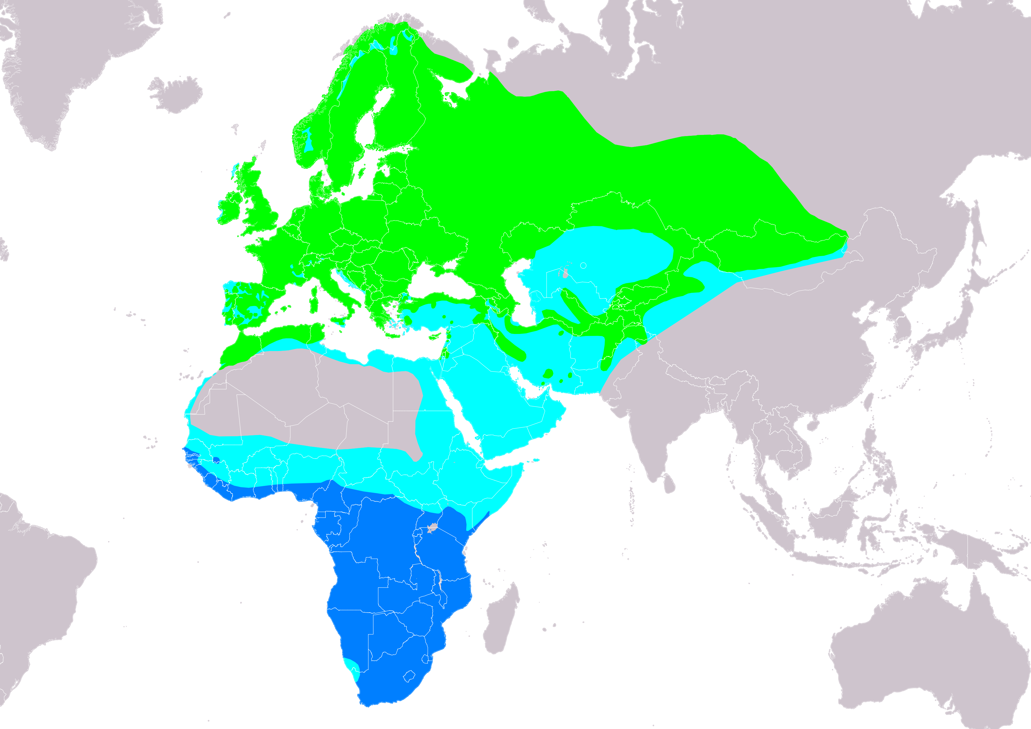 Distribution map of Spotted Flycatcher (Muscicapa striata) according to IUCN version 2019.3; key: Legend: Extant, breeding (#00FF00), Extant, passage (#00FFFF), Extant, non-breeding (#007FFF)